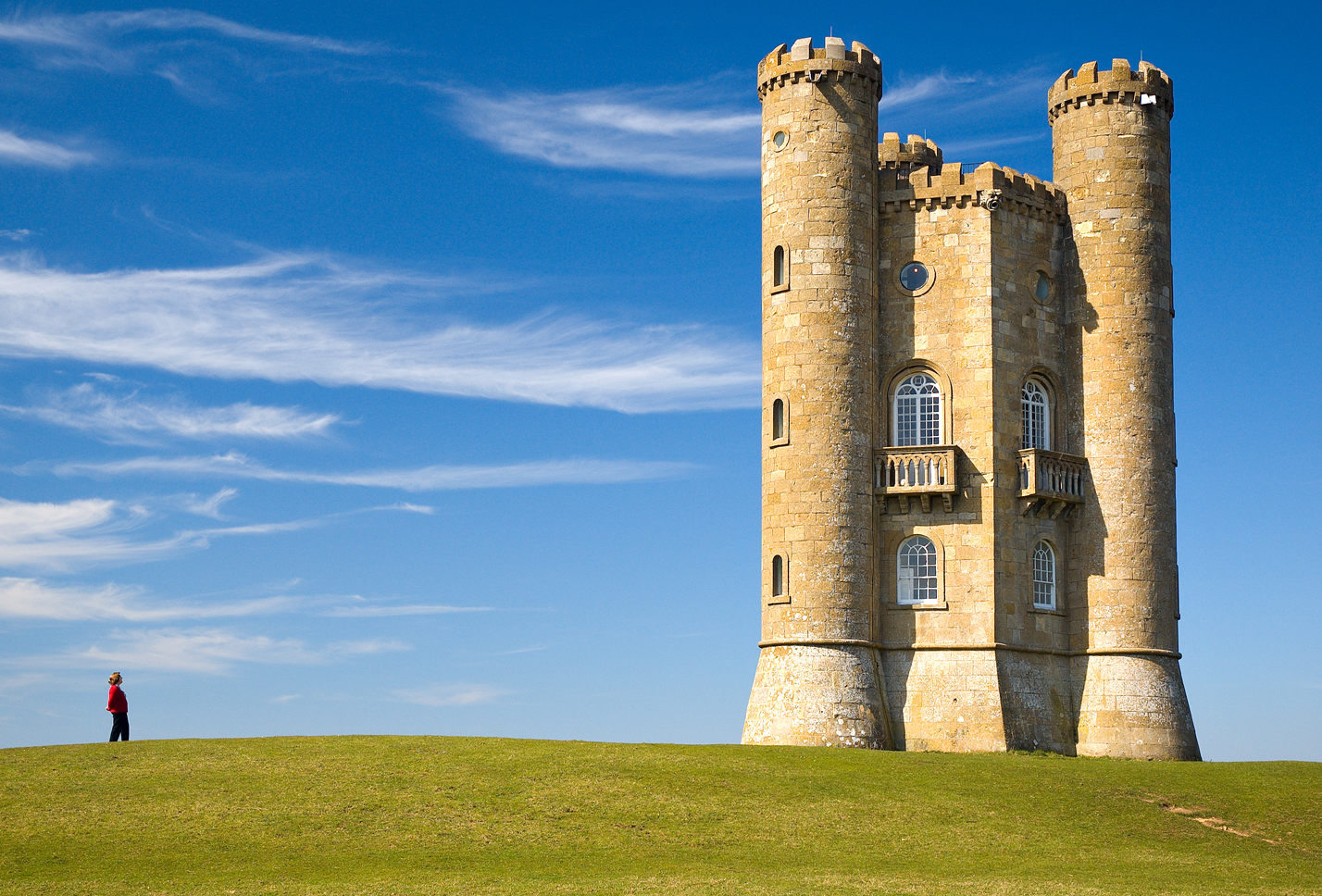 Broadway Tower, Cotswolds, England. Edited version of photo by Newton2 (cropped one person from the left).